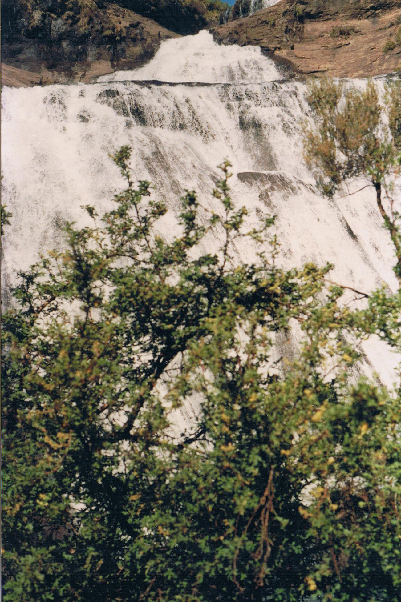 Qiloane Falls, Makhaleng, in Lesotho